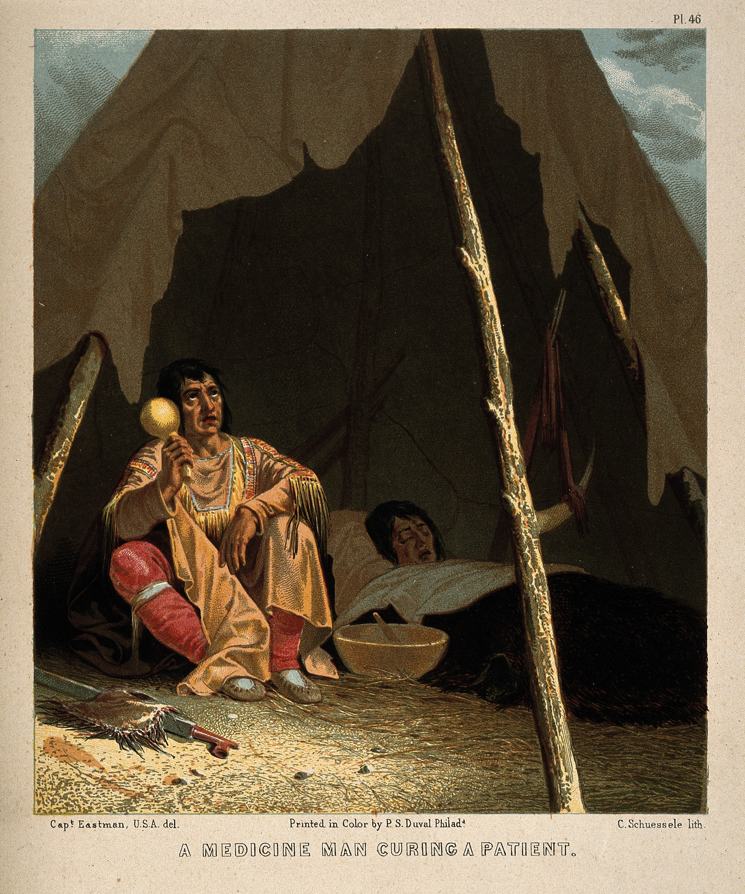 A North American Indian shaman or medicine man healing a patient. Chromolithograph by C. Schuessele after Captain Eastman. Iconographic Collections Keywords: Eastman; C. Schuessele